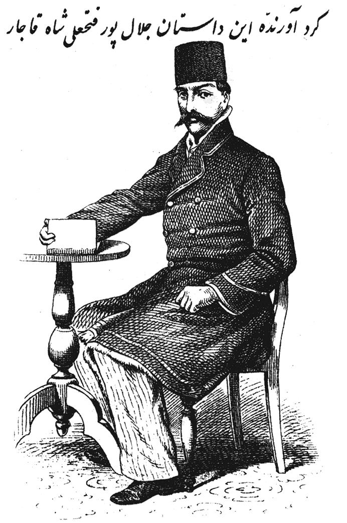 This is a picture of Jalal Al-Din Mirza, he was a Iranian historian and freethinker.